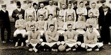 The Chelsea FC's squad in 1905. (L to R) Back Row: John Tait Robertson (player-manager), Gus Mears (director), Michael Byrne, Fred Parker (director), Bob McRoberts, William 'Fatty' Foulke, David Copeland, Bob Mackie, James Miller, Bob McKewan, Harry Ransom (trainer), James Craigie, William Lewis (club secretary), Jack White (assistant trainer); Middle row: Martin Moran, Charles Donaghy, Tommy Miller, Jimmy Robertson, Francis O' Hara, Jimmy Windridge, George Key, Jack Kirwan; Sitting: ? Dowland, ? Slater, Frank Wolfe, James Watson.